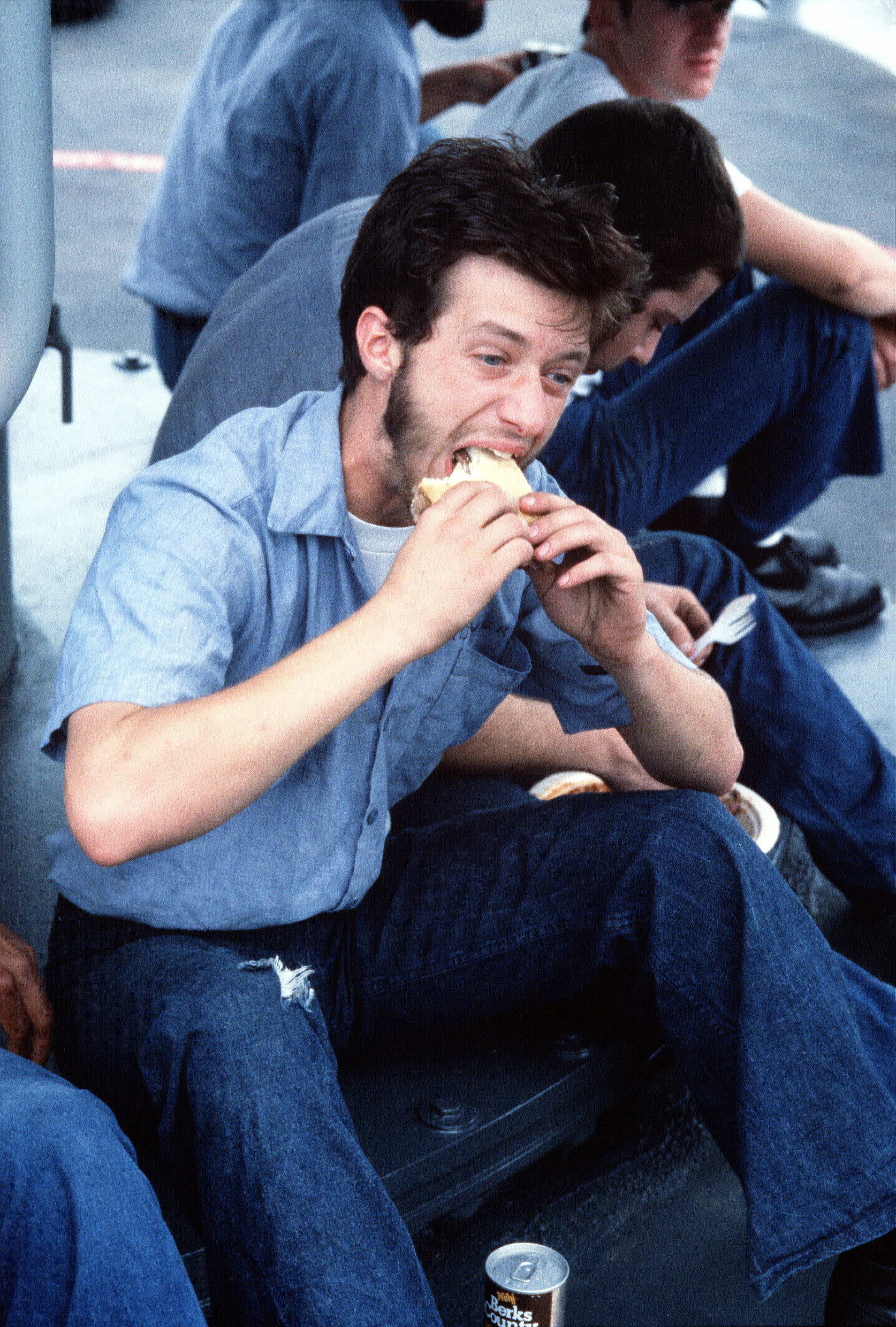 A U.S. Navy sailor aboard the destroyer USS RADFORD (DD 968) enjoys a sandwich at a picnic lunch prepared for the crew during naval exercise Unitas XXI. Near his foot a can of Nehi Berks County Root Beer is visible.